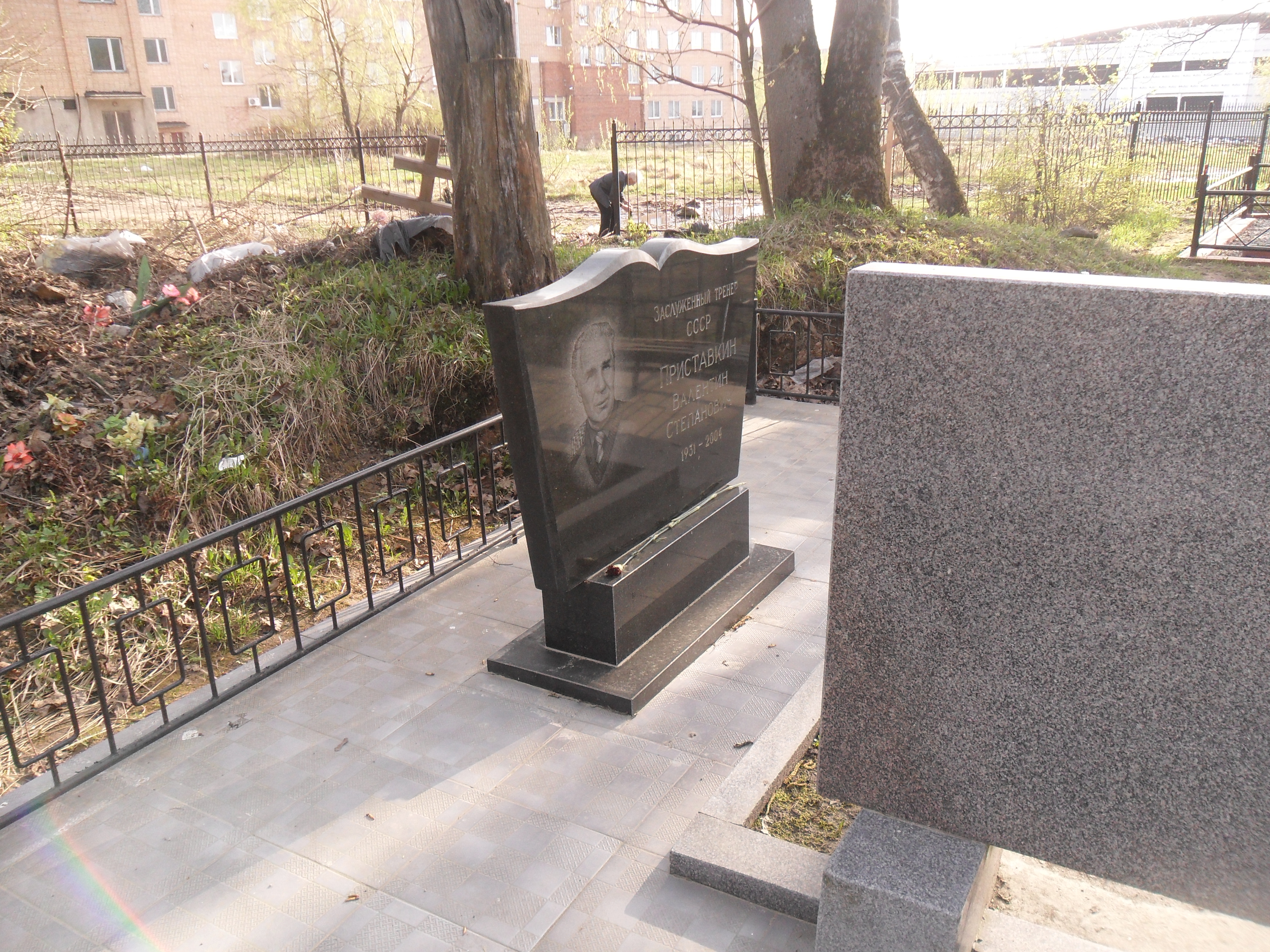 Tomb of the USSR Honored Coach Valentine Pristavkin at Fraternal Cemetery in Smolensk.